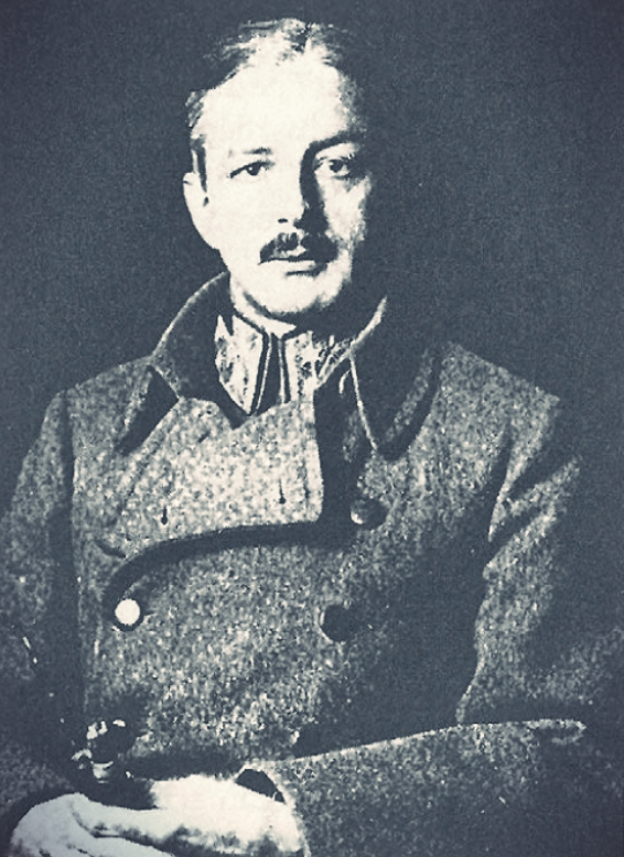 Lieutenant-Colonel Viktor Frh v Seiller, Generalstabschef of the Tiroler Kaiserjaeger Regiment , was interpreter, member of the armistice commission and signatory of the armistice of Villa Giusti between Italy and Austria-Hungary on 4th November 1918